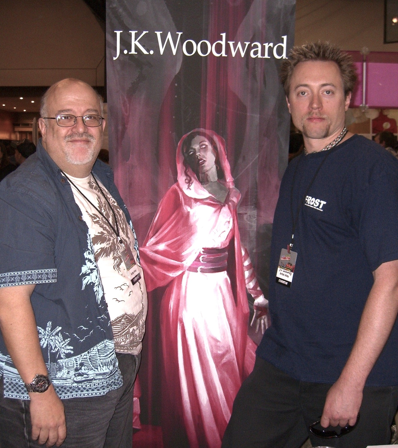 Comic book creators Peter David and J.K. Woodward at the New York Comic Convention in Manhattan, October 10, 2010. Photo by Luigi Novi. This photo may be used, modified and published for any purpose, only if a easily visible credit to the photographer is placed near the photo in each instance in which it is used. (See licensing information below.) Publication of this photo without this proper attribution constitute copyright infringement. For more information on my photos, you can contact me here.